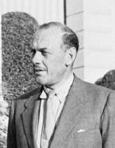 Oliver Lyttelton, 1st Viscount Chandos (1893–1972), British statesman.